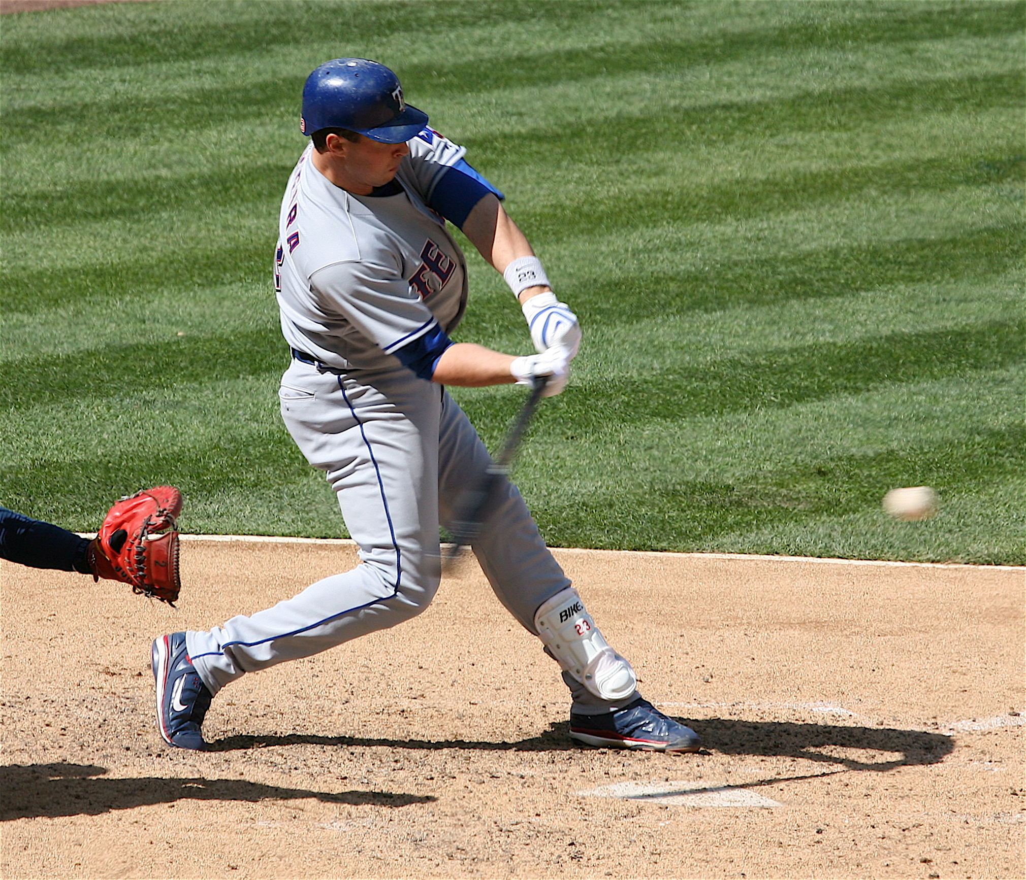 Mark Teixeira swinging at a pitch.